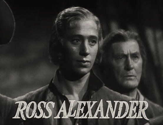 Ross Alexander in Captain Blood - trailer (cropped screenshot)